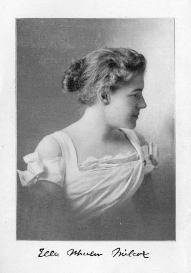 Portrait of Ella Wheeler Wilcox. Frontispiece from her book of poems "Three Women"